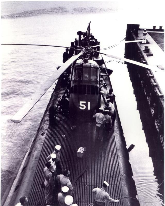 A U.S. Navy Sikorsky HSS-1 Seabat helicopter Experimental Squadron 1 (VX-1) aboard USS Corporal (SS-346) at Key West, Florida (USA), 26 April 1956. It landed aboard the submaring after experiending mechanical trouble.